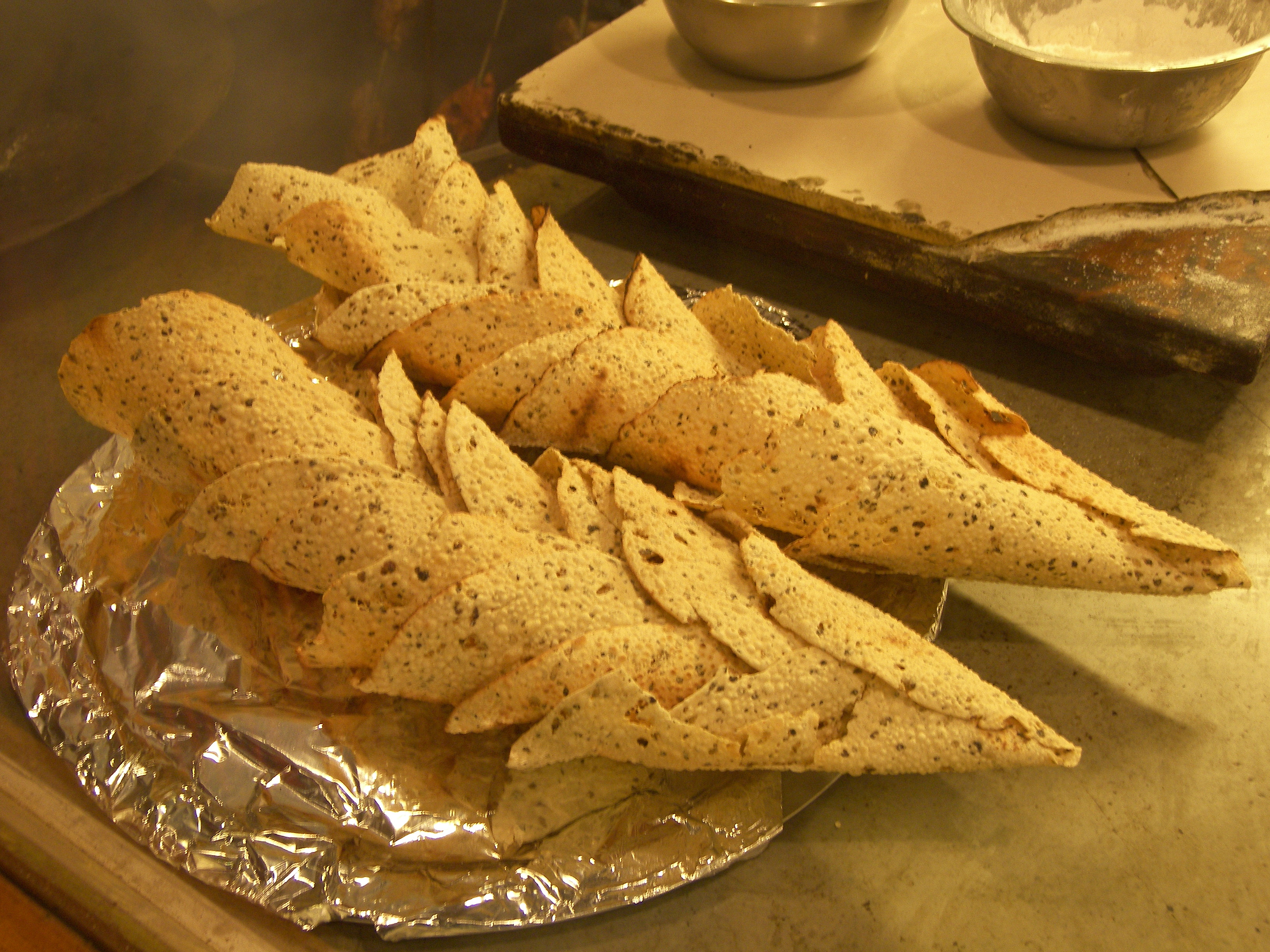 Rolled spicy papadums India.